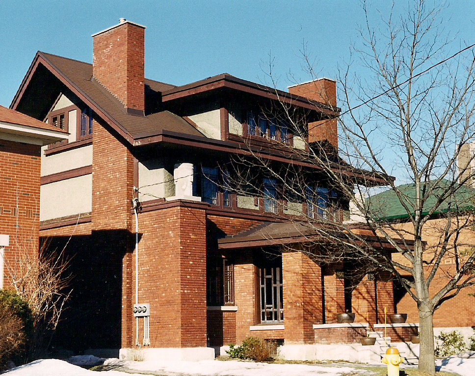 Francis Sullivan architect. Home for Edward J. Connors 1914-15 Ottawa Ontario